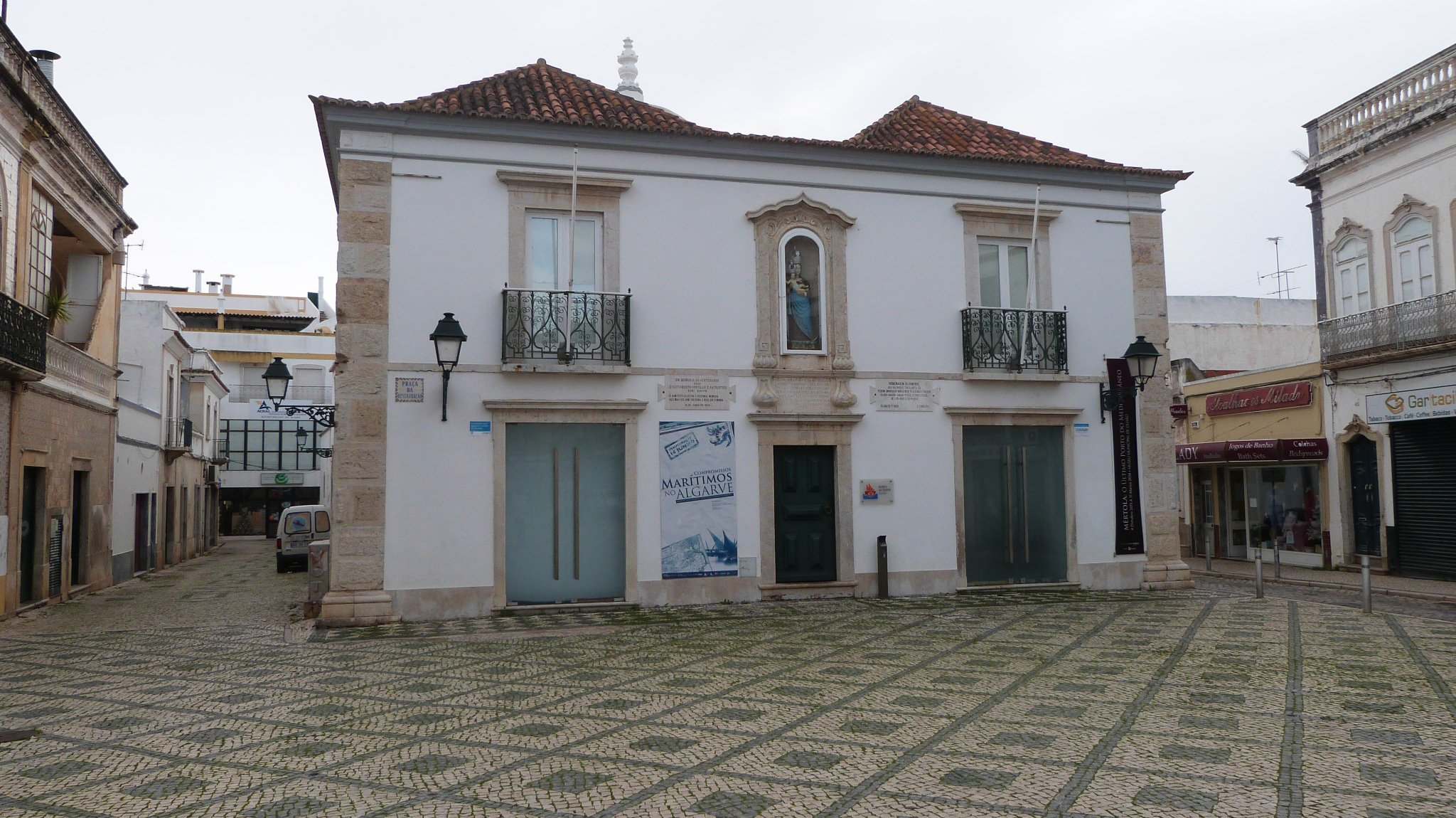 The City Museum consists of three different collections: a collection of archaeological materials dating back to Copper Age, Bronze Age, Roman and Islamic period; a collection of numismatics presenting coins from the Middle Ages to contemporary era, as well as a collection of paleontological materials (fossils). The museum is housed in the emblematic “Compromisso Marítimo” building.If you like my photos please help support my hobby and click on my video and watch it.. Many Thanks Peter